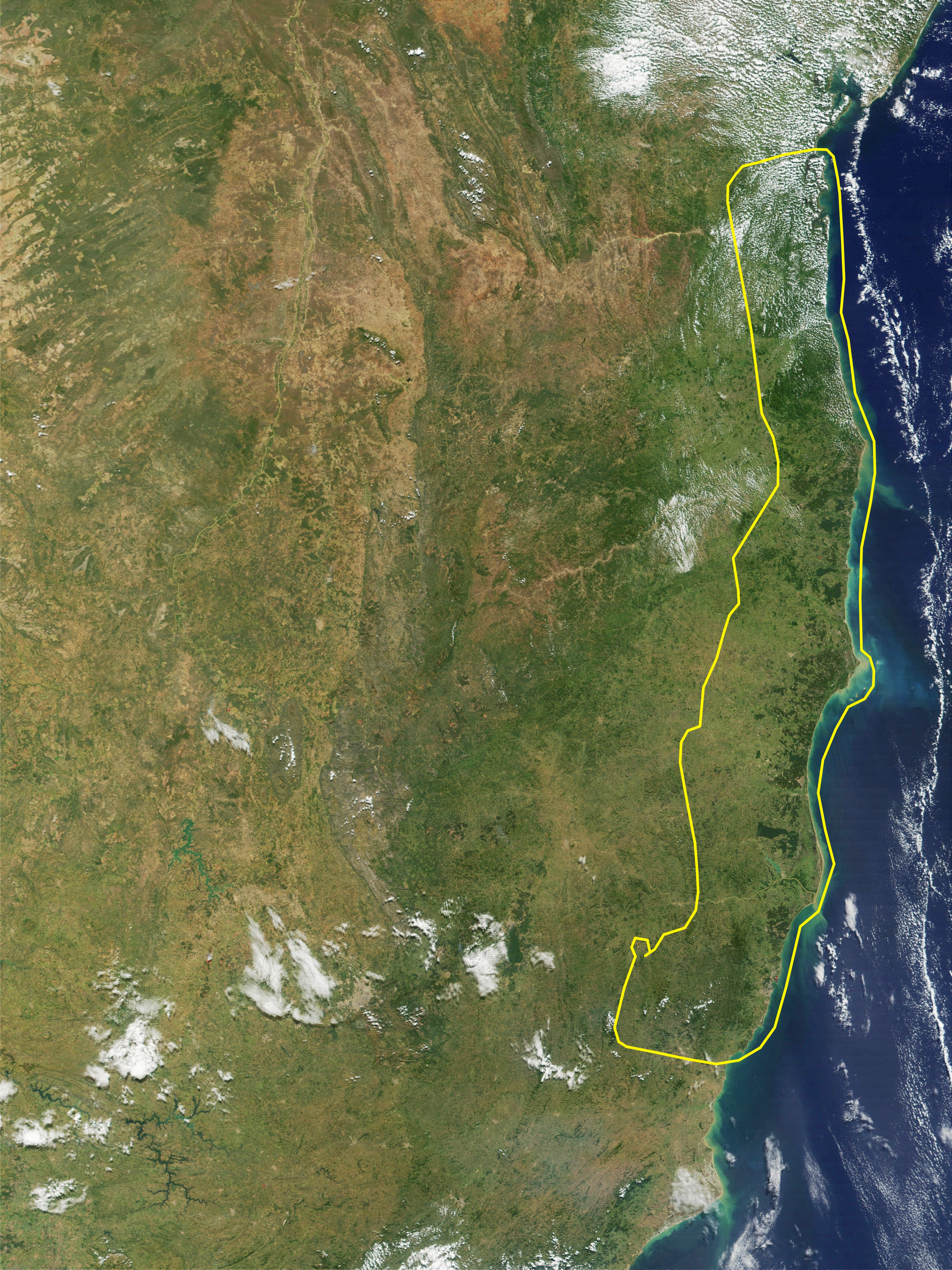 Satellite picture showing Serra do Mar Corridor. Yellow line encloses the corridor limits as delineated by Aguiar et al 2005. I, Miguelrangeljr, made the limits using Corel Draw X4. Satellite image by NASA.